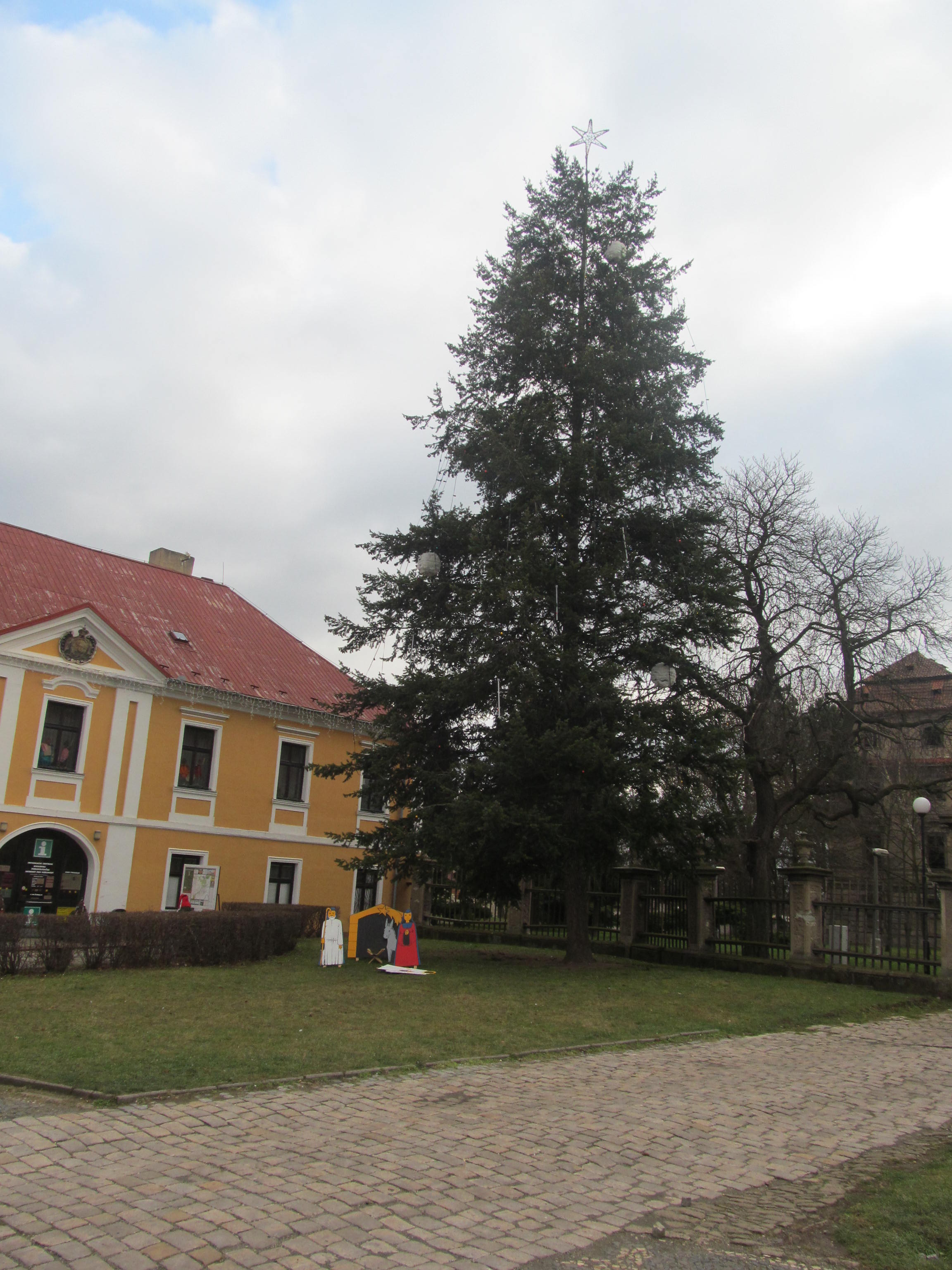 Christmas tree in Postoloprty